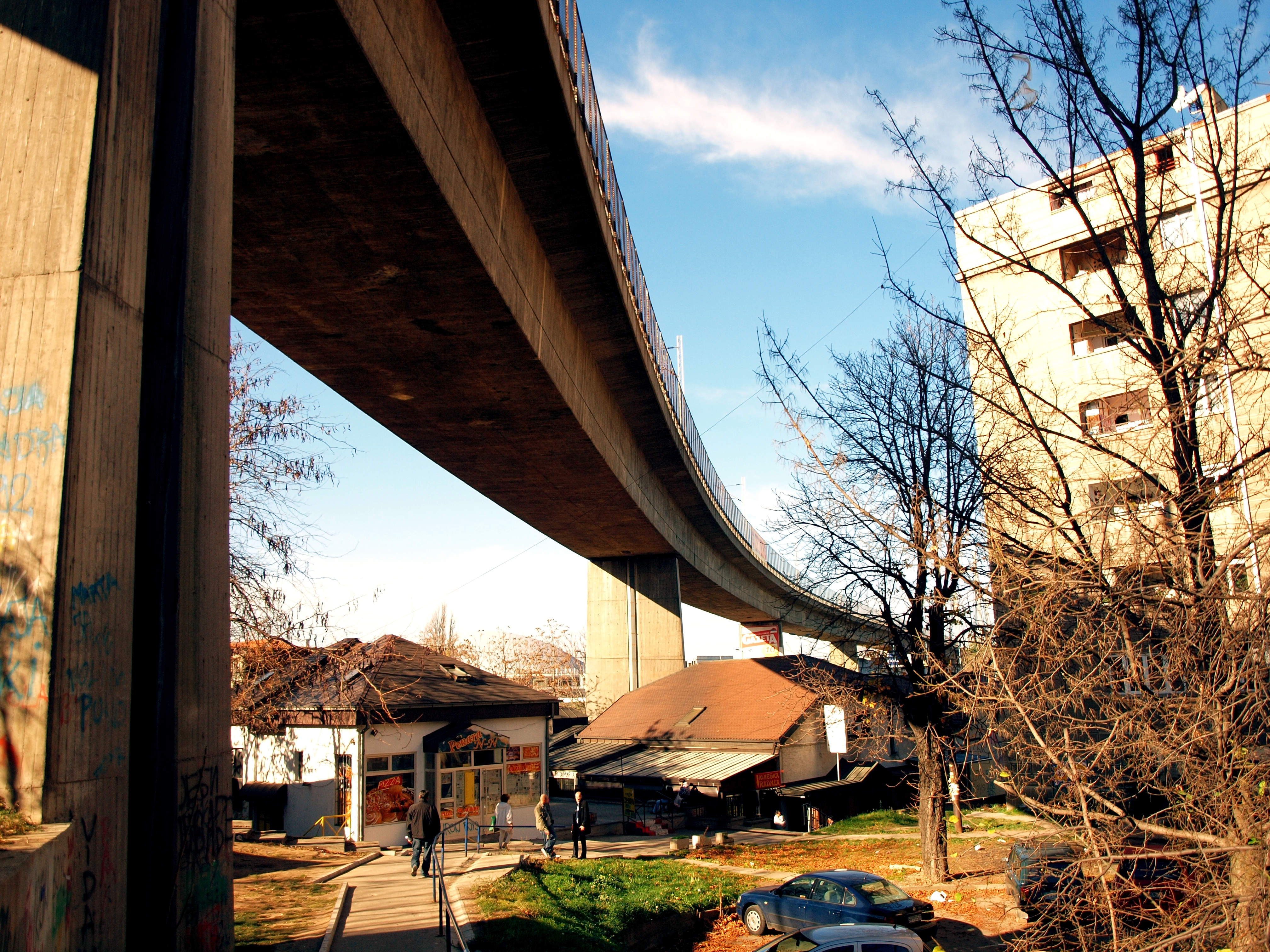 Nikola Hajdin Novi zeleznicki most u Beogradu 1977